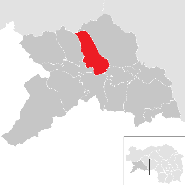 district Murau